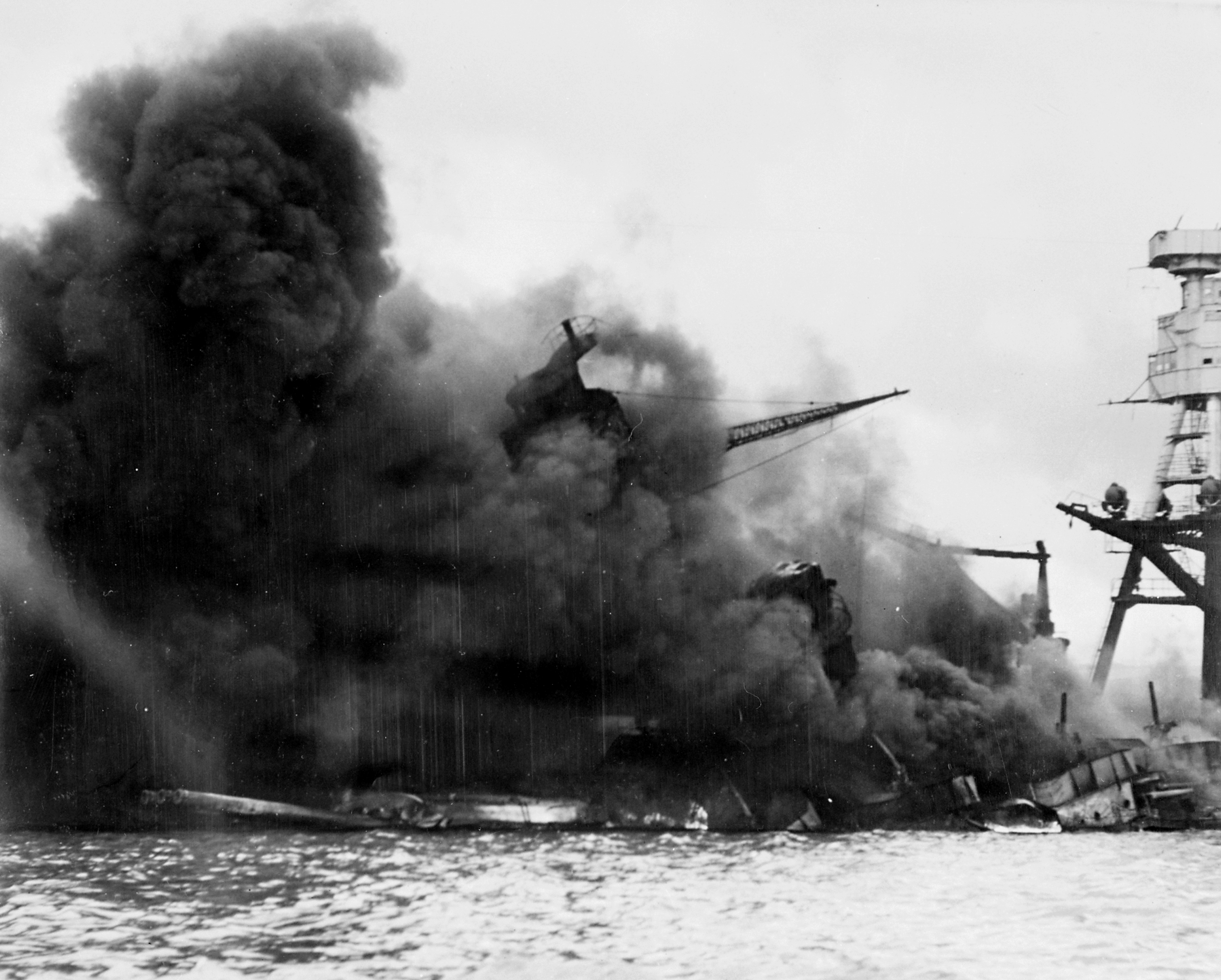 The USS Arizona (BB-39) burning after the Japanese attack on Pearl Harbor, 7 December 1941. The ship is resting level on the bottom. The supporting structure for the gun director tripod mast has collapsed and so the mast has tilted.